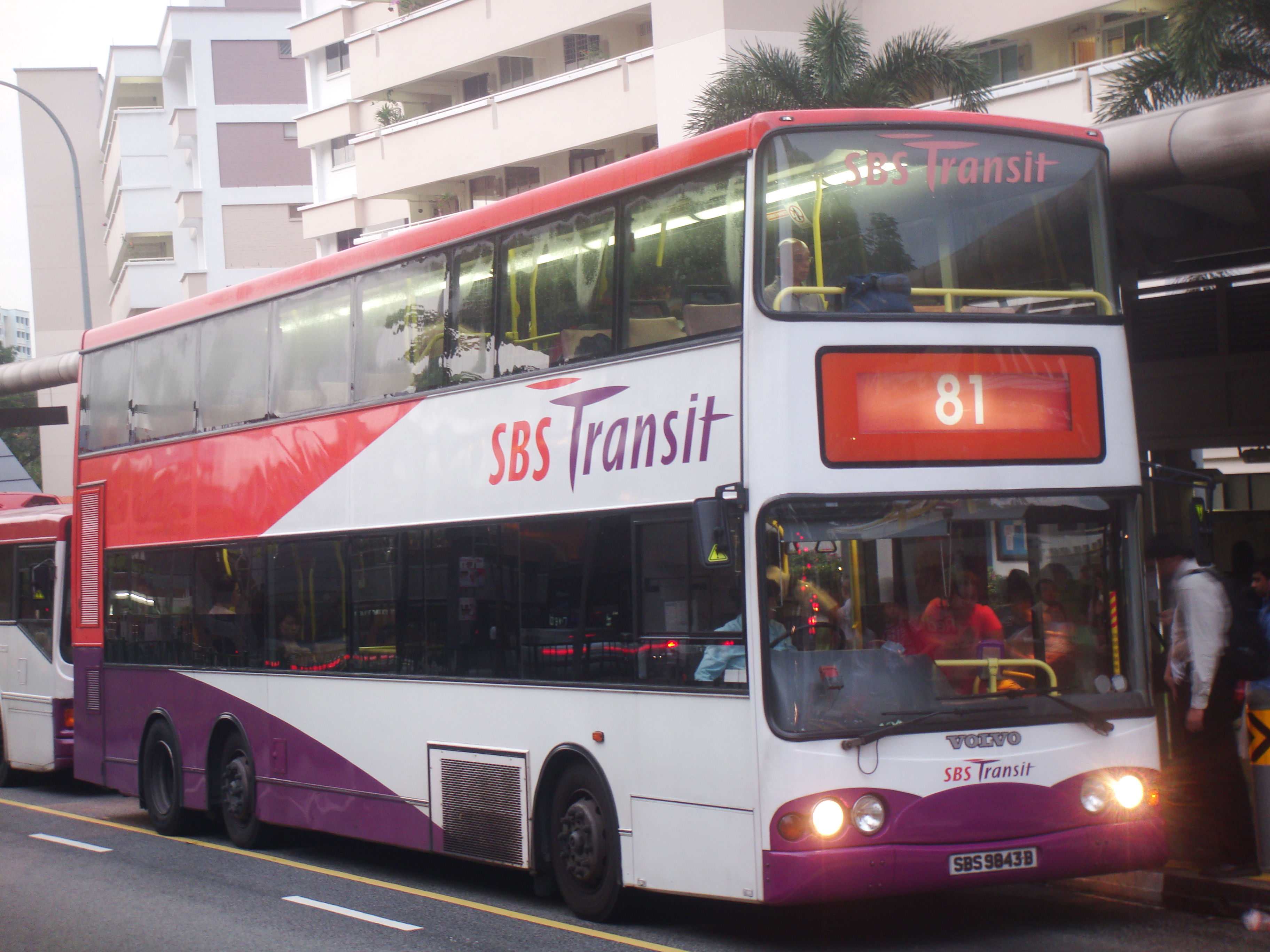 SBS Transit Volgren CR222LD bodied Volvo Super Olympian (SBS9843B, 12m, built 2003), at Serangoon, Singapore.